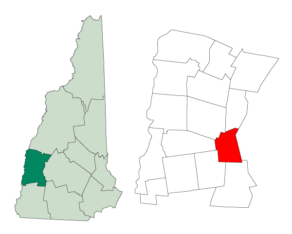 Map of a municipality in Sullivan County, New Hampshire